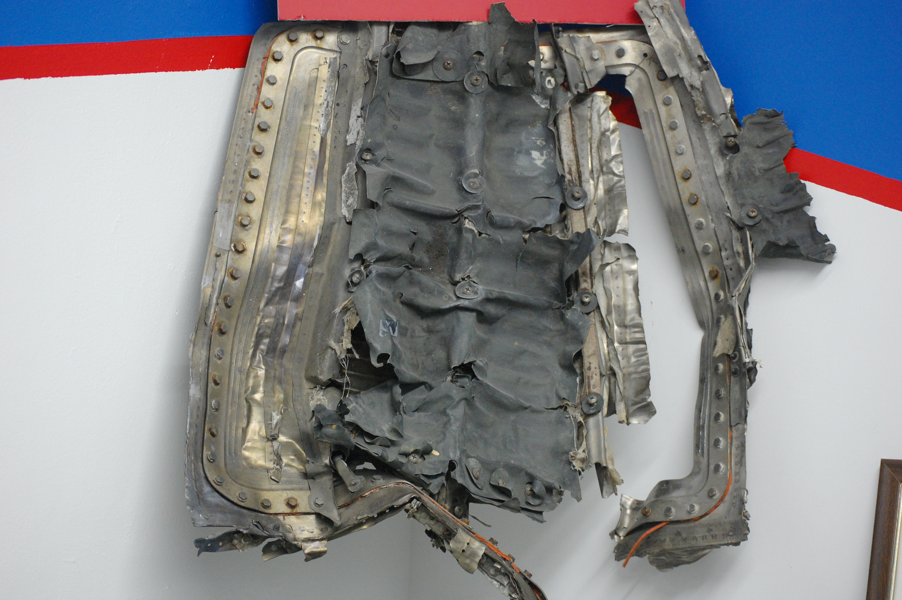 American Space Museum, Titusville, Florida, US, the hatch from the Mercury spacecraft in Mercury-Atlas 1